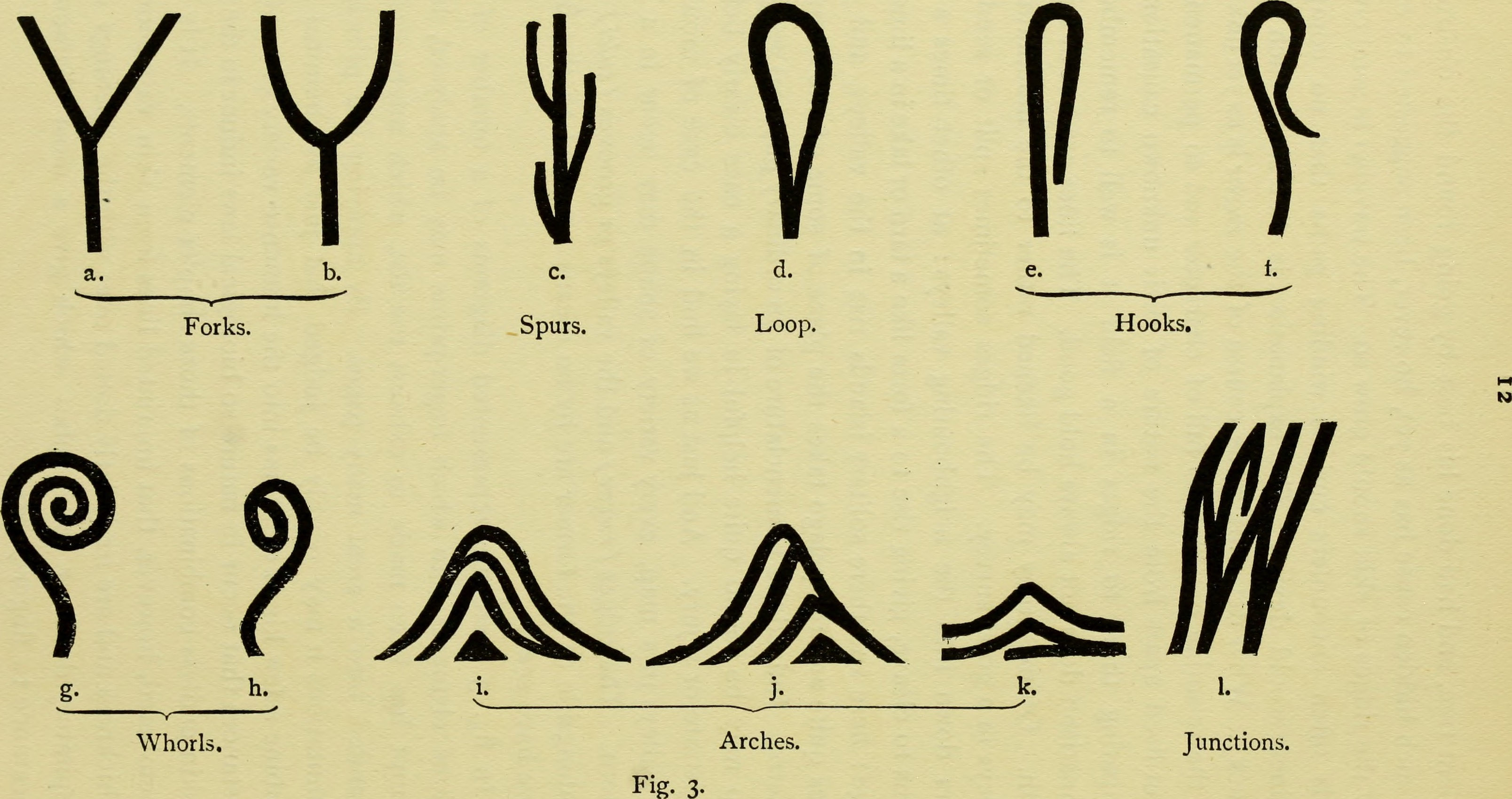 Title: Guide to finger-print identification (electronic resource) Year: 1905 (1900s) Authors: Faulds, Henry, 1843-1930 Subjects: Dermatoglyphics Publisher: Hanley : Wood, Mitchell Text Appearing Before Image: find in the case of mountainsand valleys in a map, every variety of shape may occur in a fingerpattern. The ridges (rugae) and the valleys or grooves (sulci) whichlie alongside of the former are by no means confined to the fingers,as we have seen. In fig. 3 there are represented diagrams of a number of thosecurious elements into which finger-prints may be analysed, but noattempt has been made to exhaust the list, which might easily beexpanded into a great many pages. By applying the principle ofpermutations it may readily be judged that just as chemical forcescombine a few kinds of atoms into the immense variety of compositesubstances that occur in nature so biological laws induce in the ridgesof skin endless combinations of those simpler elements. It is to beremembered, however, that imprinted lines from skin vary somewhatin thickness and are irregularly dotted over with the openings of theperspiratory ducts or sweat tubes which give a most characteristicappearance to finger-prints. Text Appearing After Image: 13